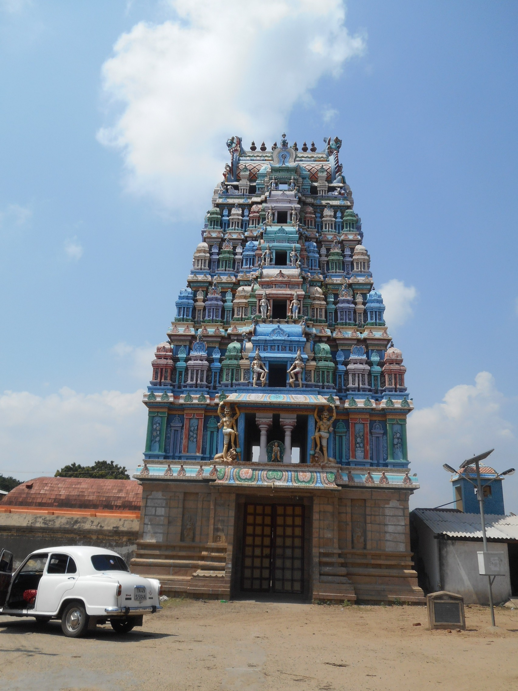 Kodiakkarai Kuzhagarkoil கோடியக்கரை குழகர் கோயில்